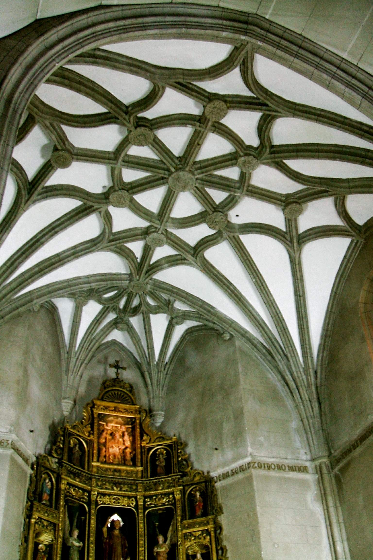 Bóveda de la Capilla Mayor de la Iglesia de la Santísima Trinidad, Orense, Galicia, España